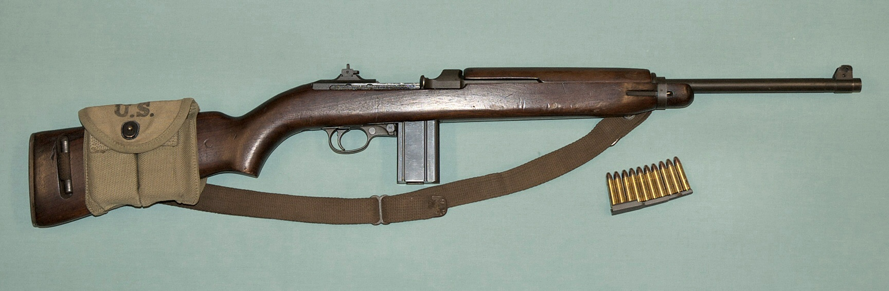 Inland M1 Carbine in original World War II configuration.